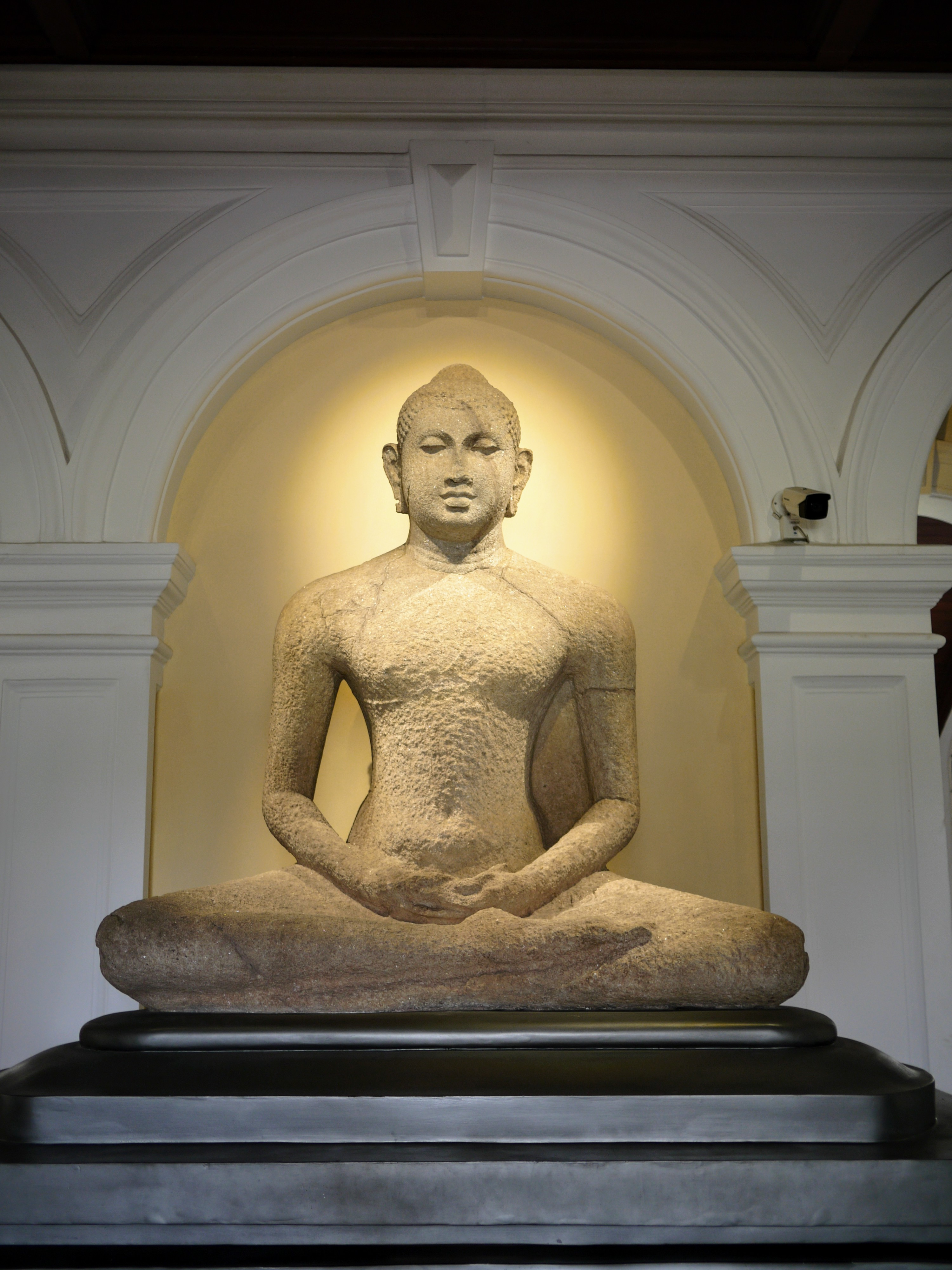 Sculpture of Gautama Buddha at the entrance of Colombo National Museum in Colombo, Sri Lanka.